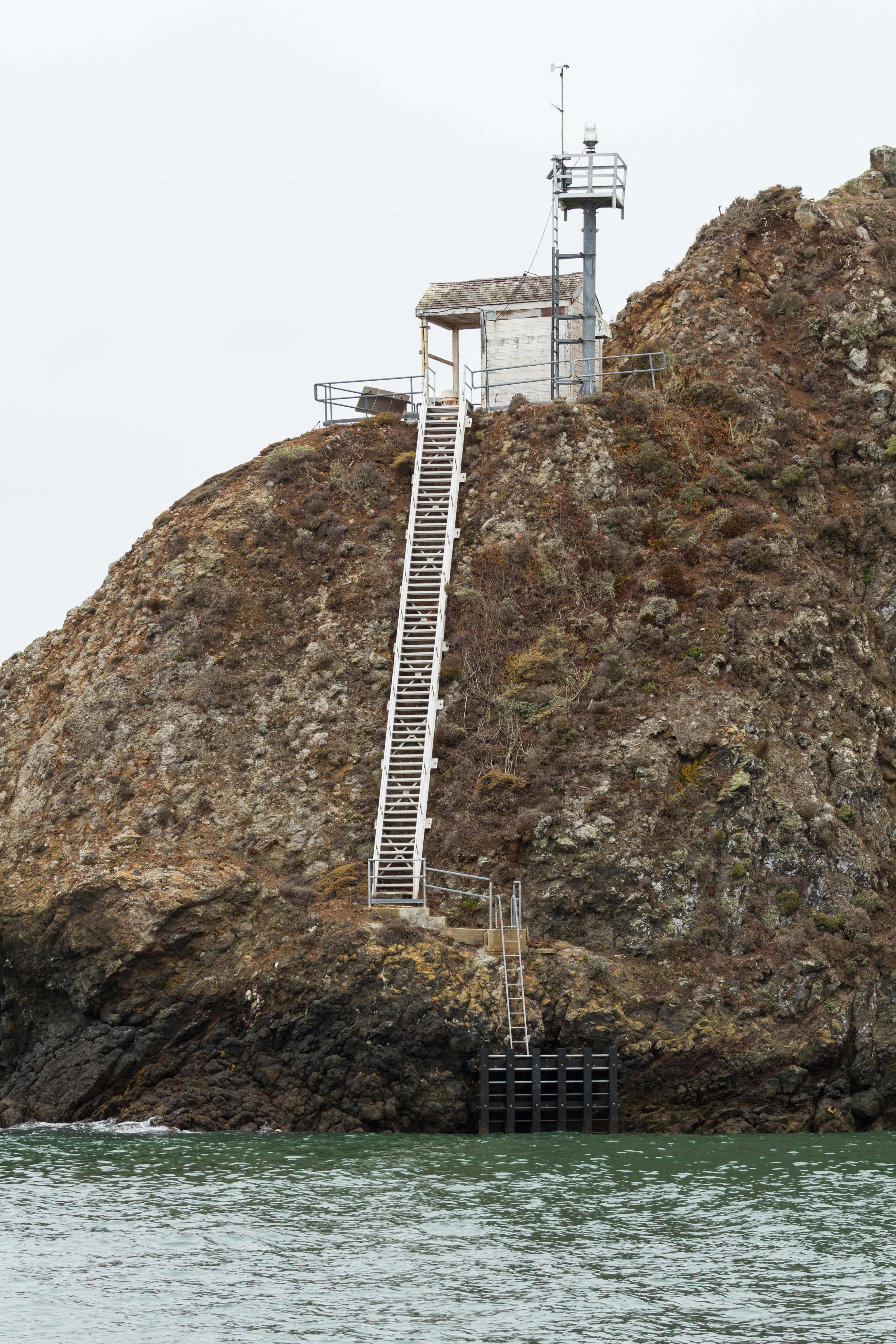 Point Diablo Light located roughly midway between Point Bonita and Lime Point Light Station on the northern side of the Golden Gate